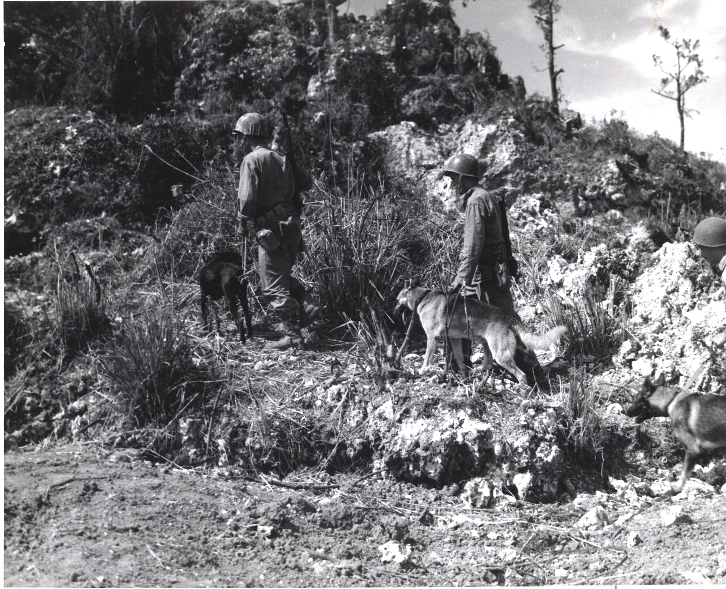 Three Marines and their War Dogs search for Japanese holdouts on Okinawa, June 1945. From the War Dogs Photograph Collection, United States Marine Corps Archives & Special Collections. OFFICIAL USMC PHOTOGRAPH